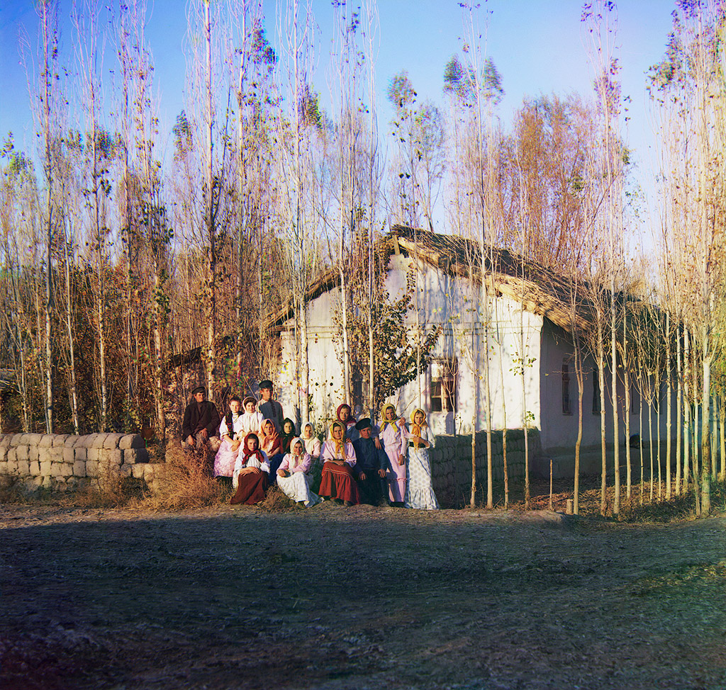 Russian settlers house in Nadezhenskii village with a group of peasants. Central Asia, Near Petropavlovsk, Kazakhstan. 1911.